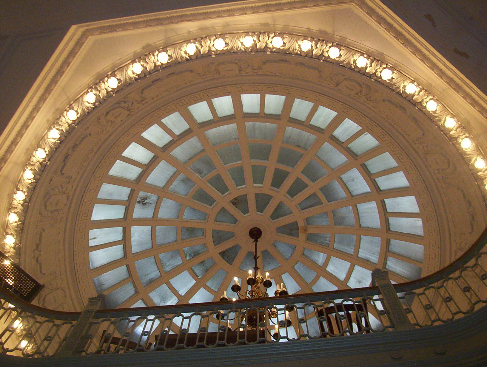 Bangor Public Library lobby, shooting upwards